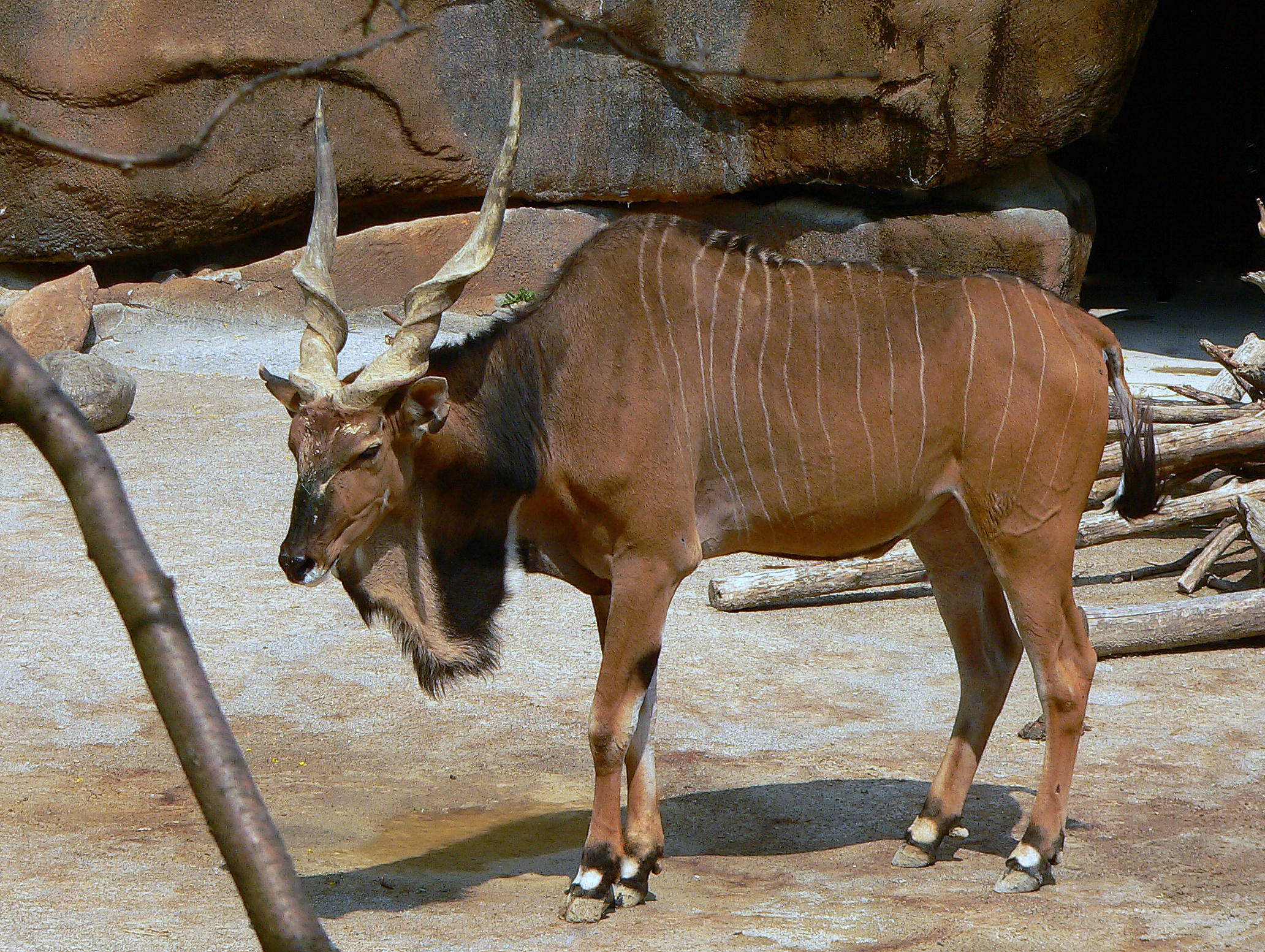 Photo of a Giant Eland, taken at the Cincinnati Zoo. Original image was cropped, color balance adjusted and branch obstruction was cloned out.